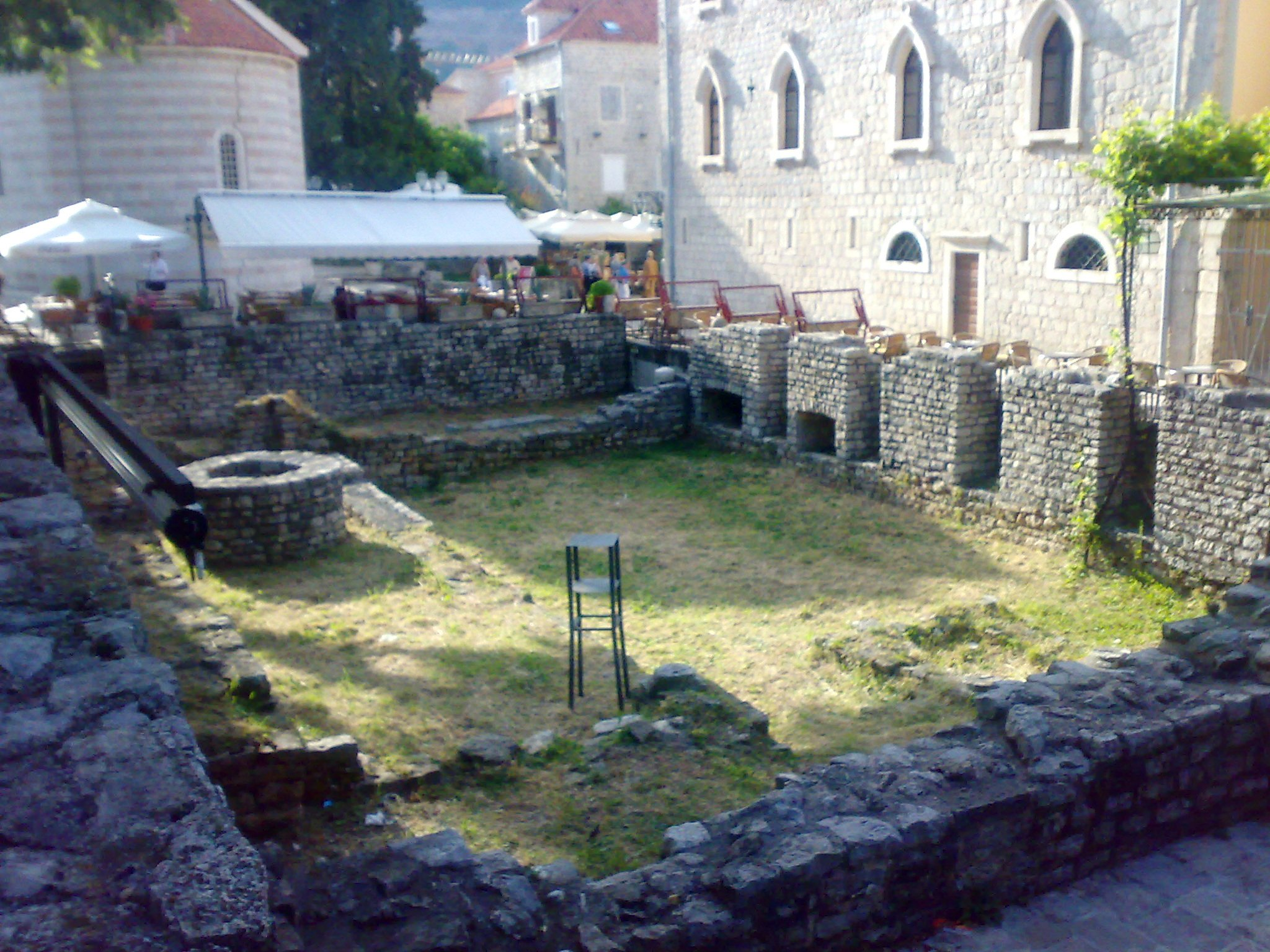 Image from Budva, southern Montenegro. The city is 2500 years old.